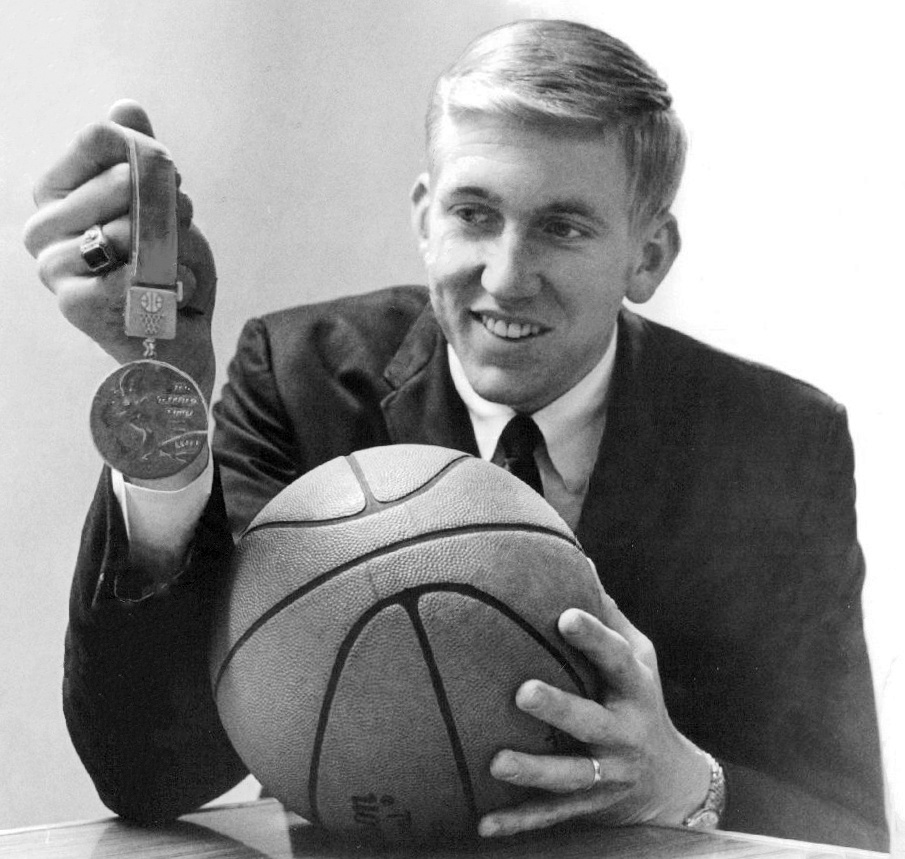 1969 US Olympic Gold Metal Winner Bill Hosket for Basketball Press Photo